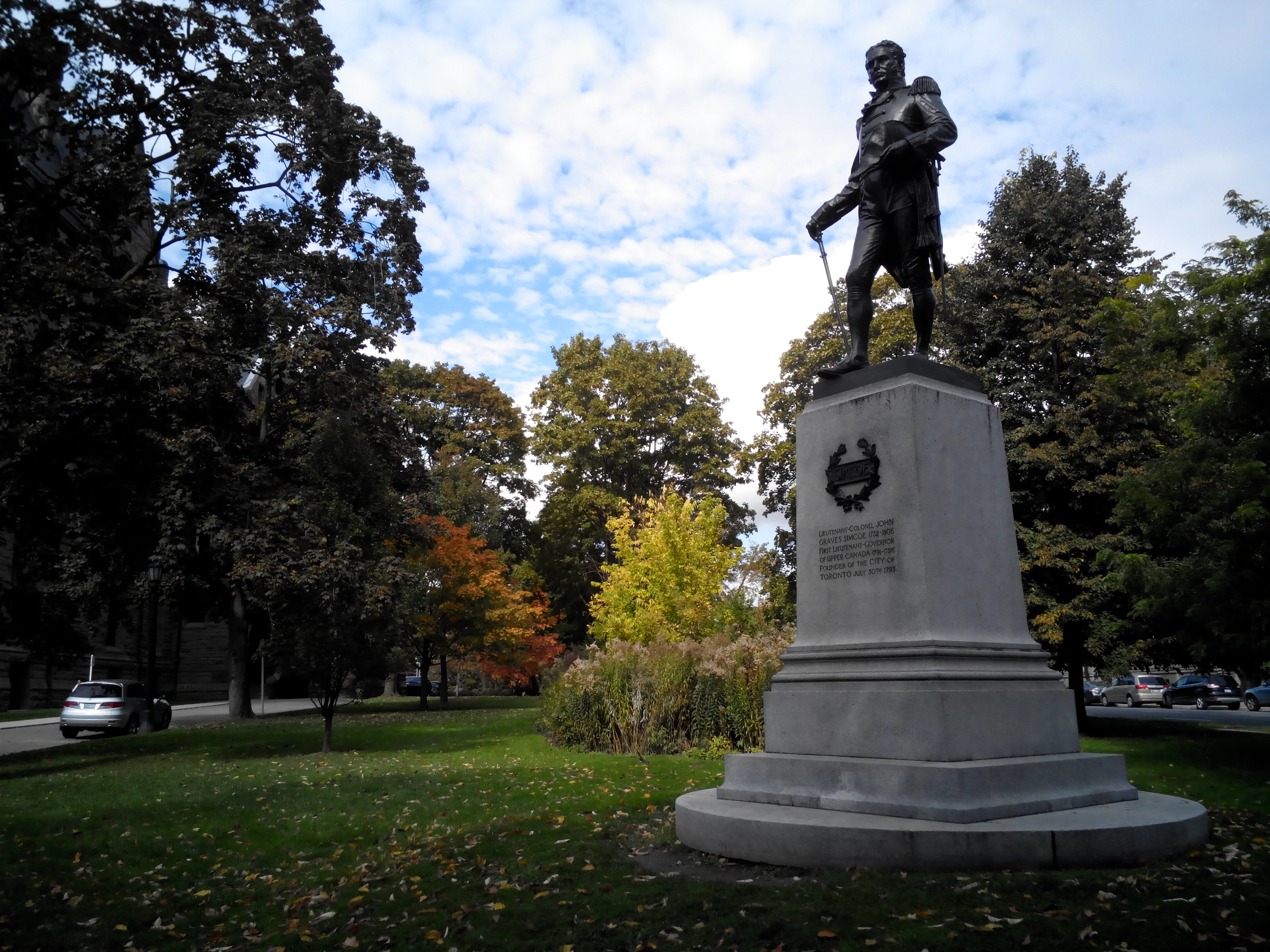 A photograph of the John Graves Simcoe monument in Queen's Park, Toronto. Also includes the photograph of a silver vehicle.